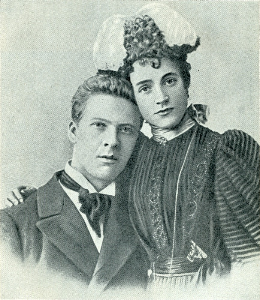 Russian bass, Feodor Chaliapin (1873 - 1938)